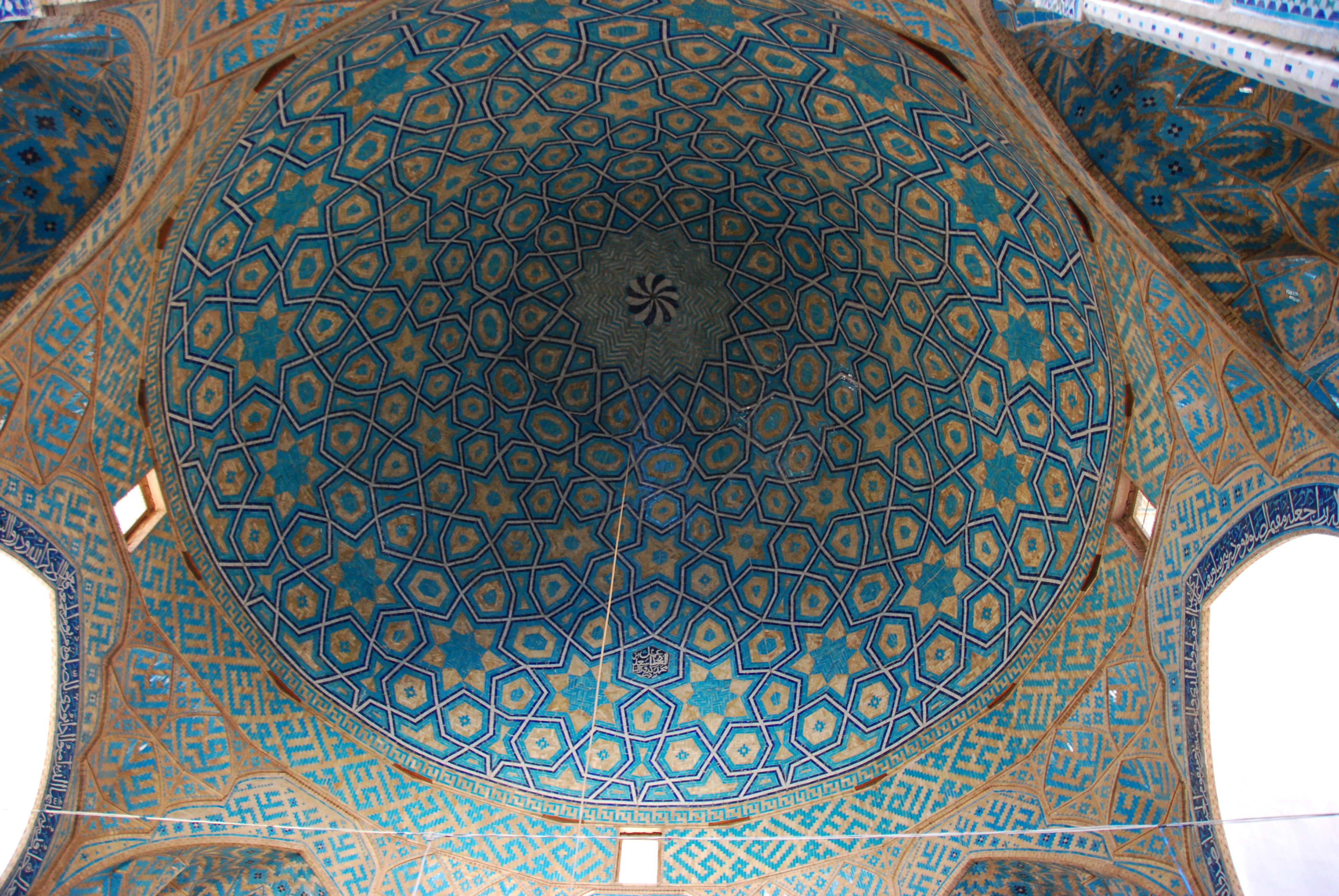 Interior of The Dome, Jame Mosque, Yazd, Iran